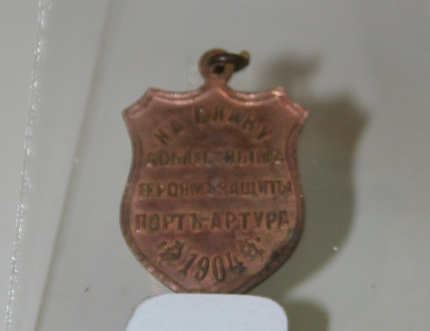 Memorial medal "For the defence of Port Arthur" awarded to artillery general Samed bey Mehmandarov